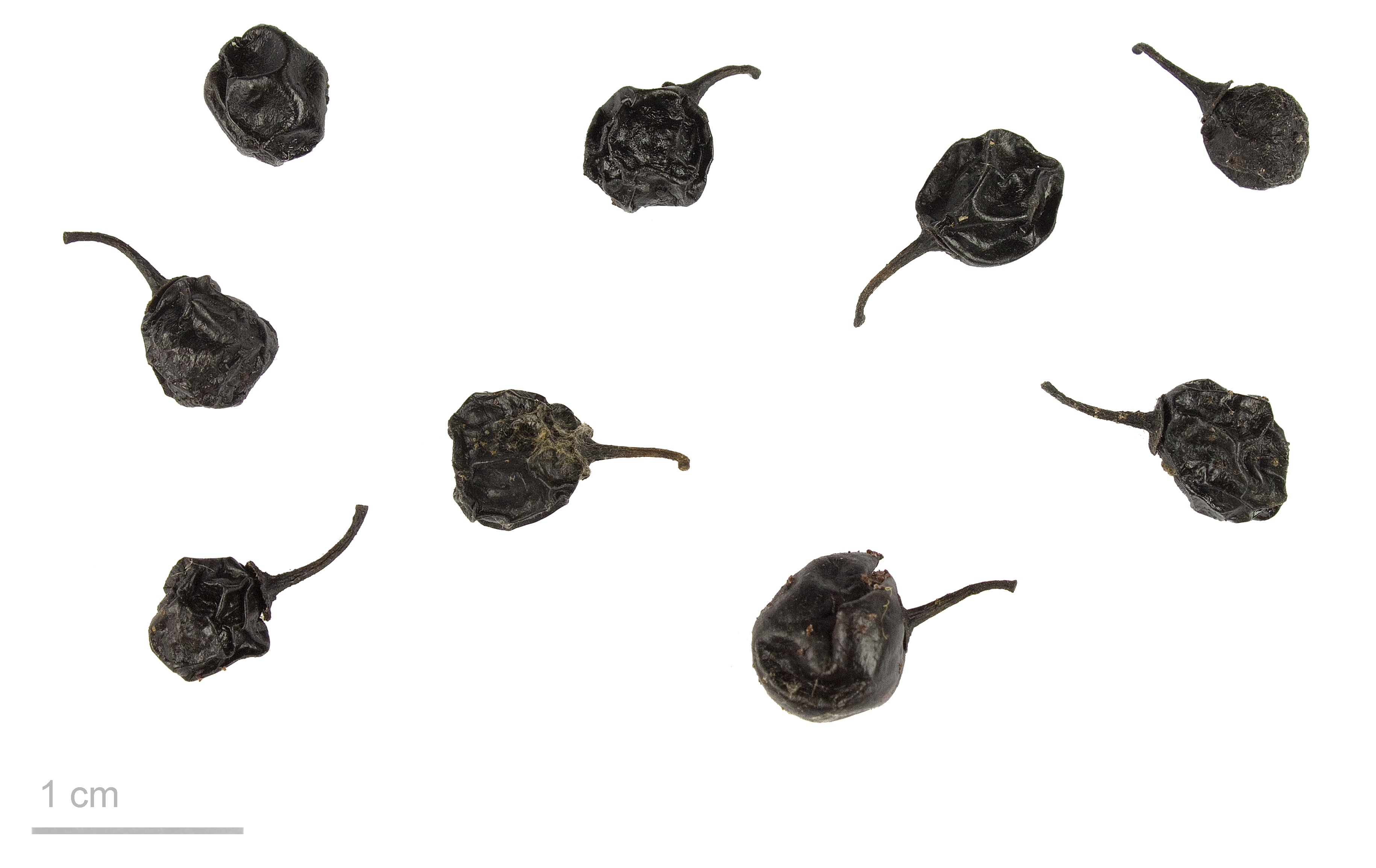 Buckthorn , fruits and seeds